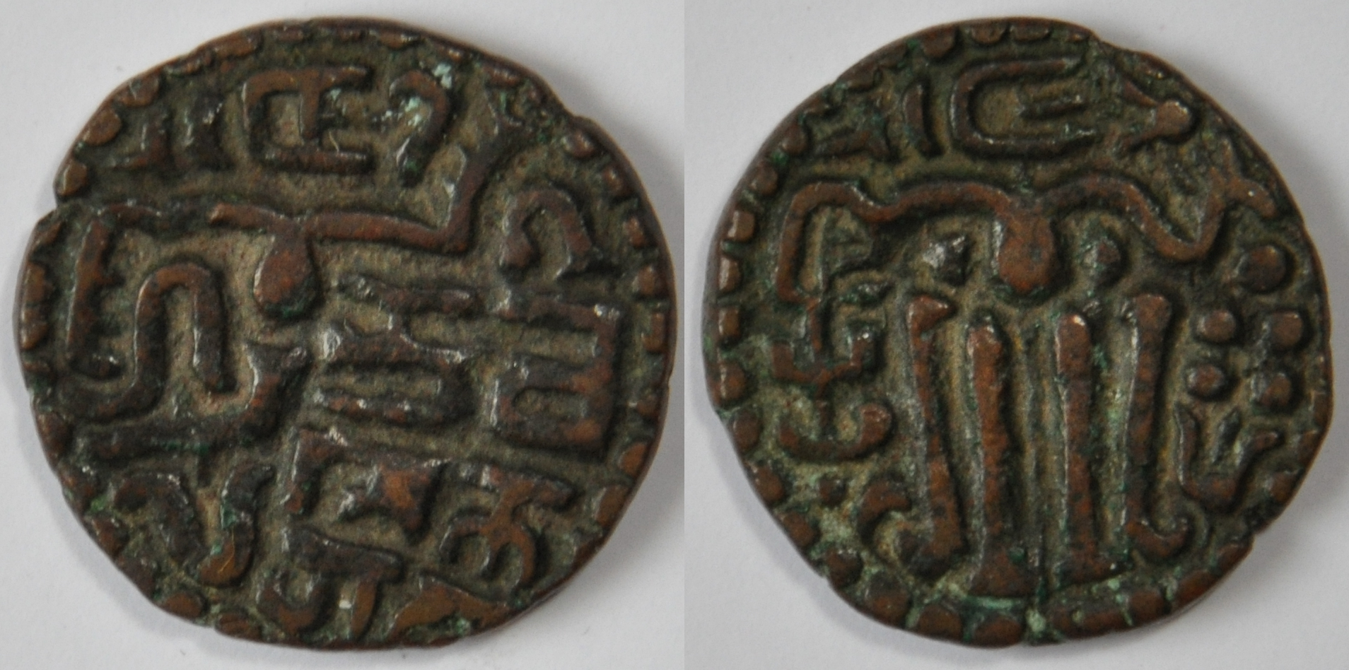 A Copper Massa coin of King Buwanekabahu (1273 - 1284) of Sri Lanka.